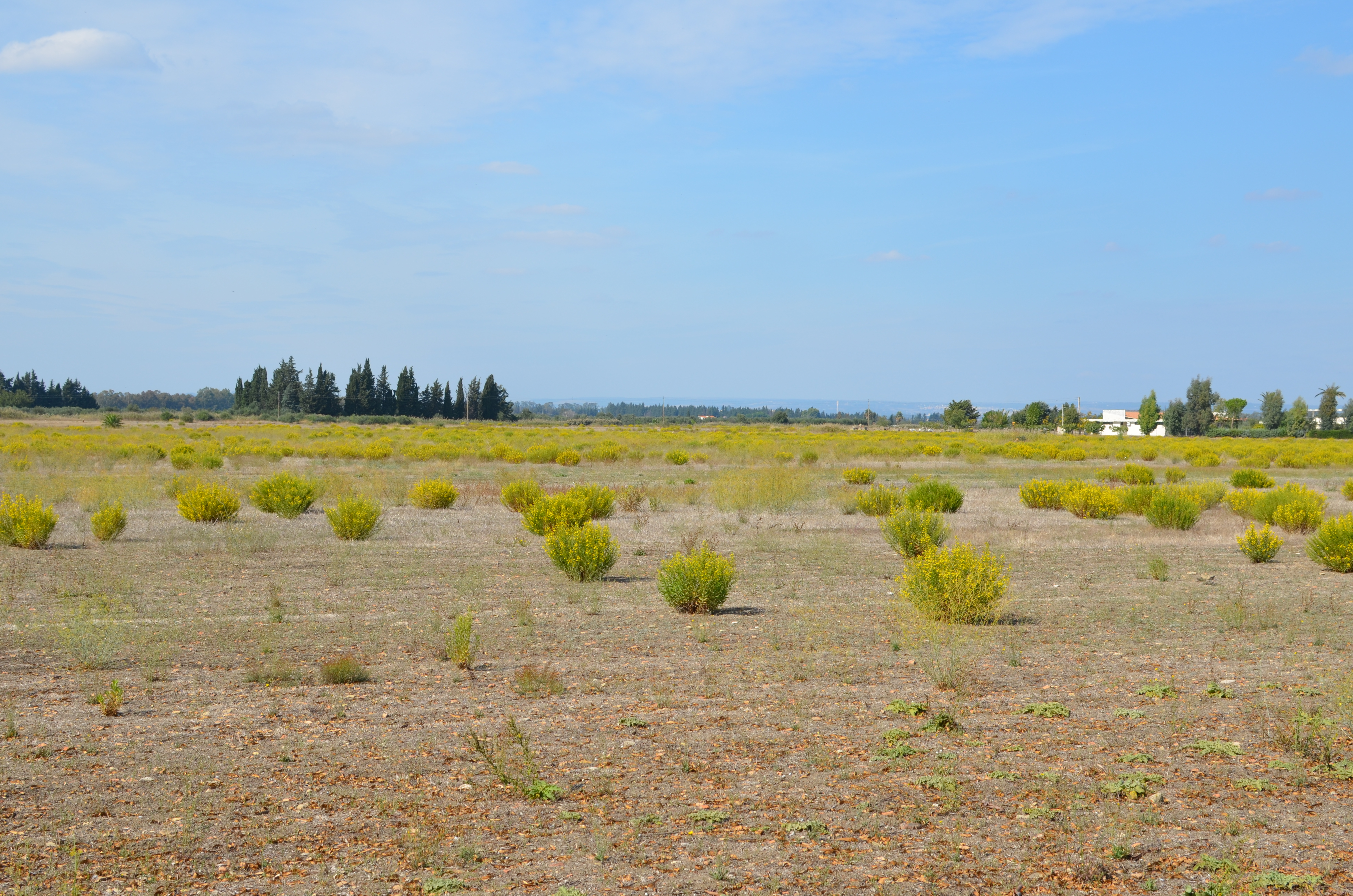 The residential quarters south of Metapontum's center. They were excavated but since the land is now used for agriculture they are no longer visible.